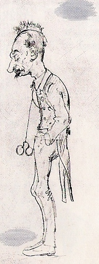 Caricature of Marian Gorzkowski (1830-1911), made by Jan Matejko. Actually located in Jan Matejko Museum in Kraków, fot. M. Machay